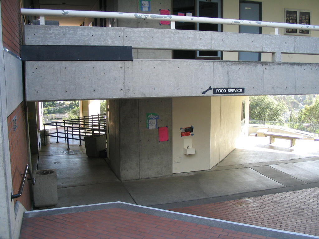 Snacks and lunch can be bought from Food Service during brunch and lunch at Piedmont Middle School. This photo was taken February 23, 2007 in the afternoon on a day during during, which is why no students are present.